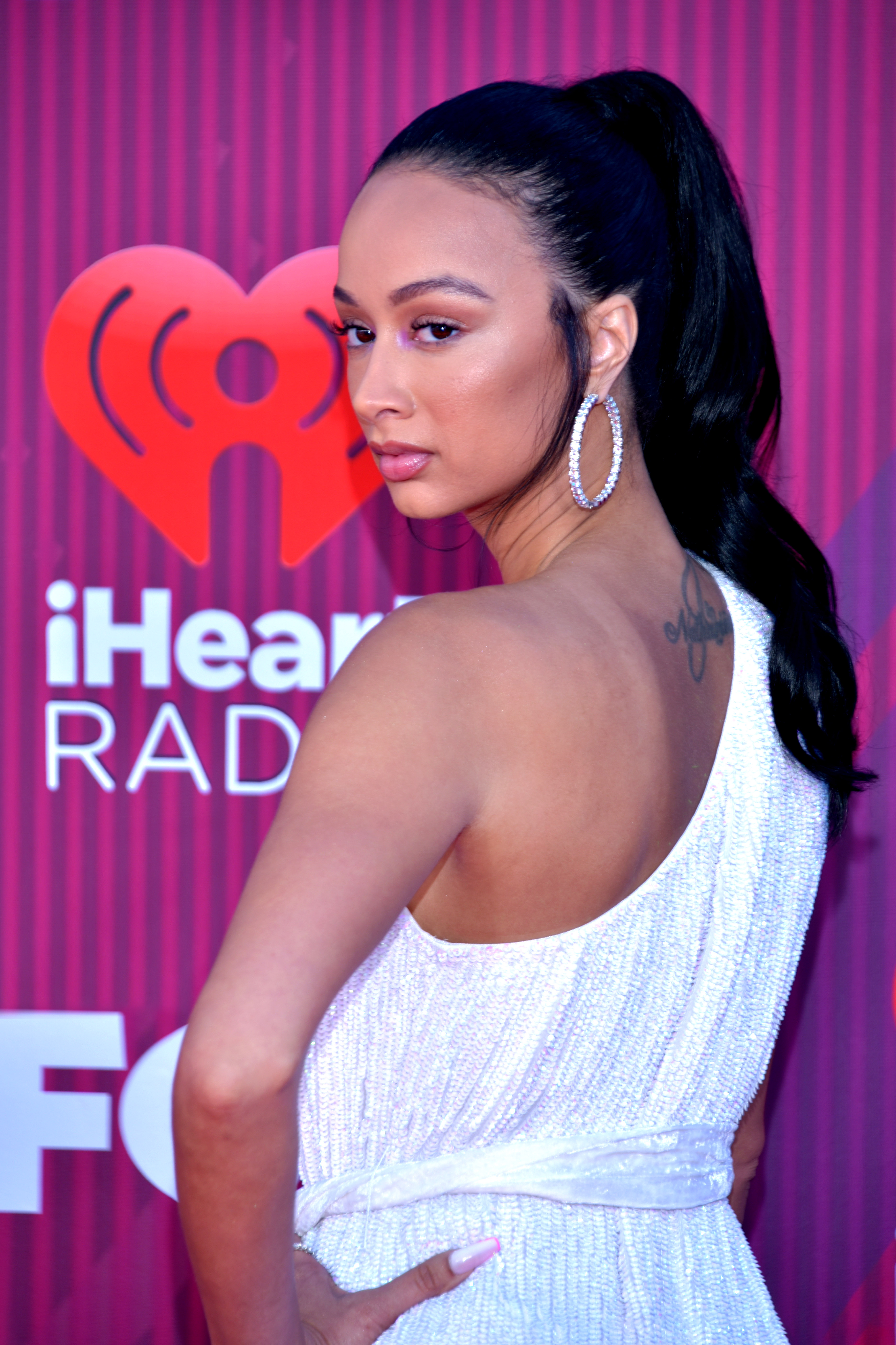 Draya Michele at the 2019 iHeartRadio Music Awards in Los Angeles California on March 14, 2019 - Photo by Glenn Francis of